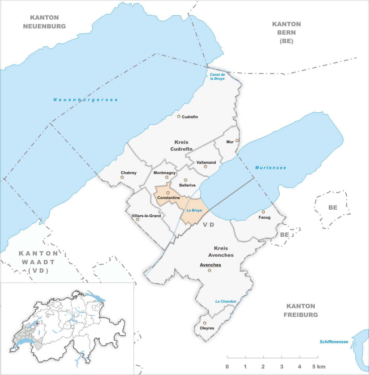 Municipality Constantine